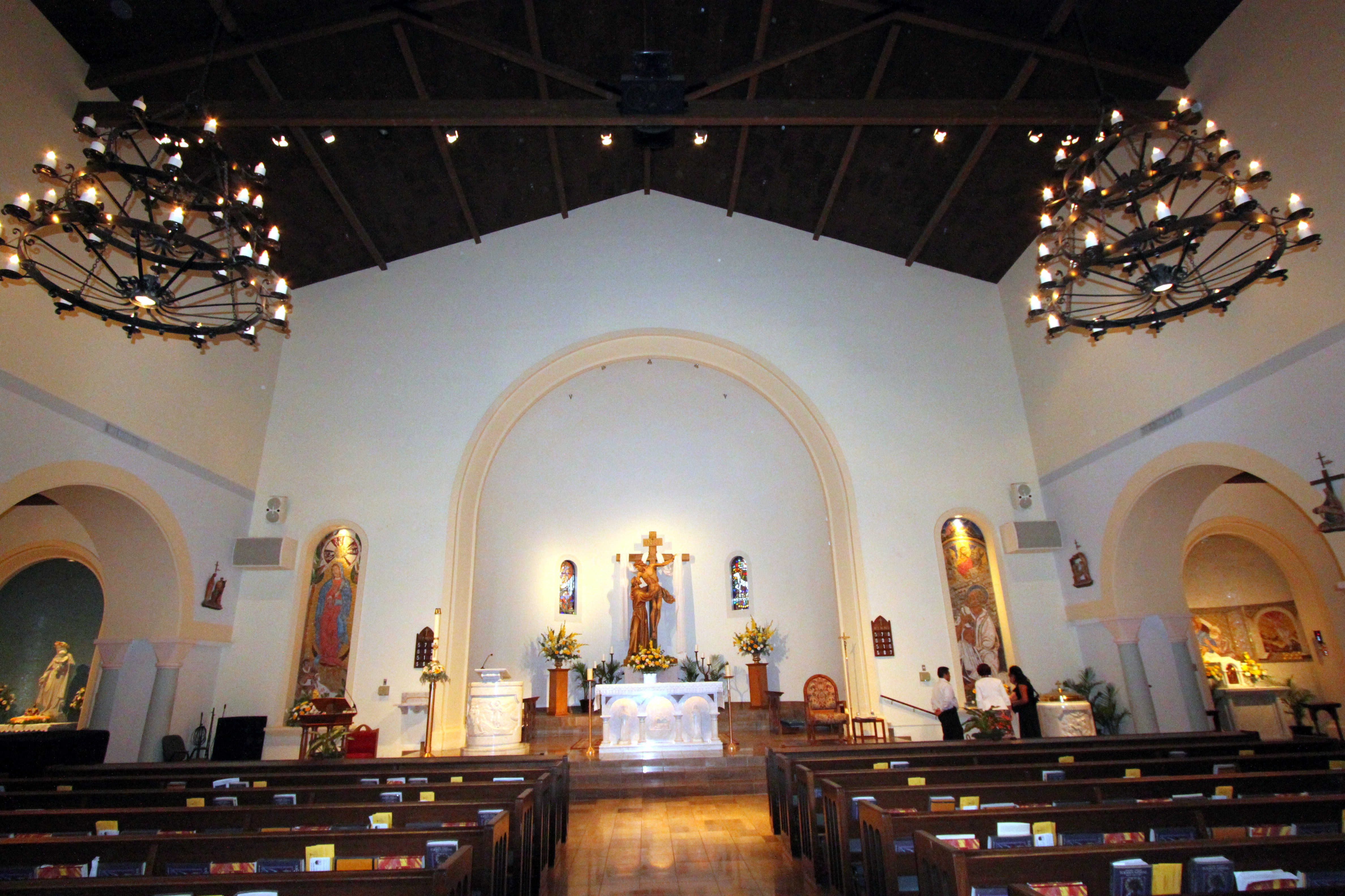 Saint Francis of Assisi Catholic Church, La Quinta, Riverside County, California, United States